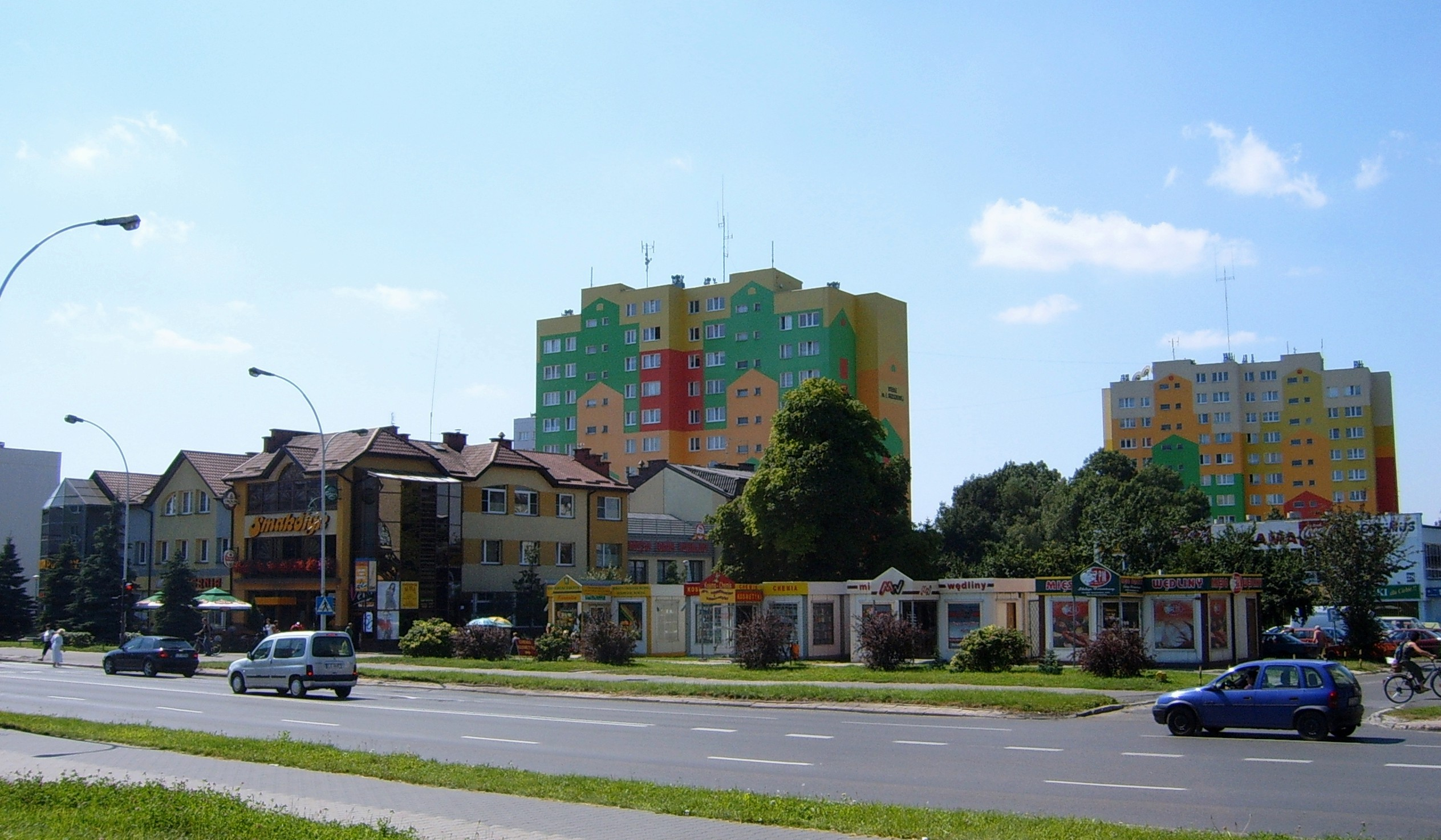 Orzeszkowej housing estate in Zamość